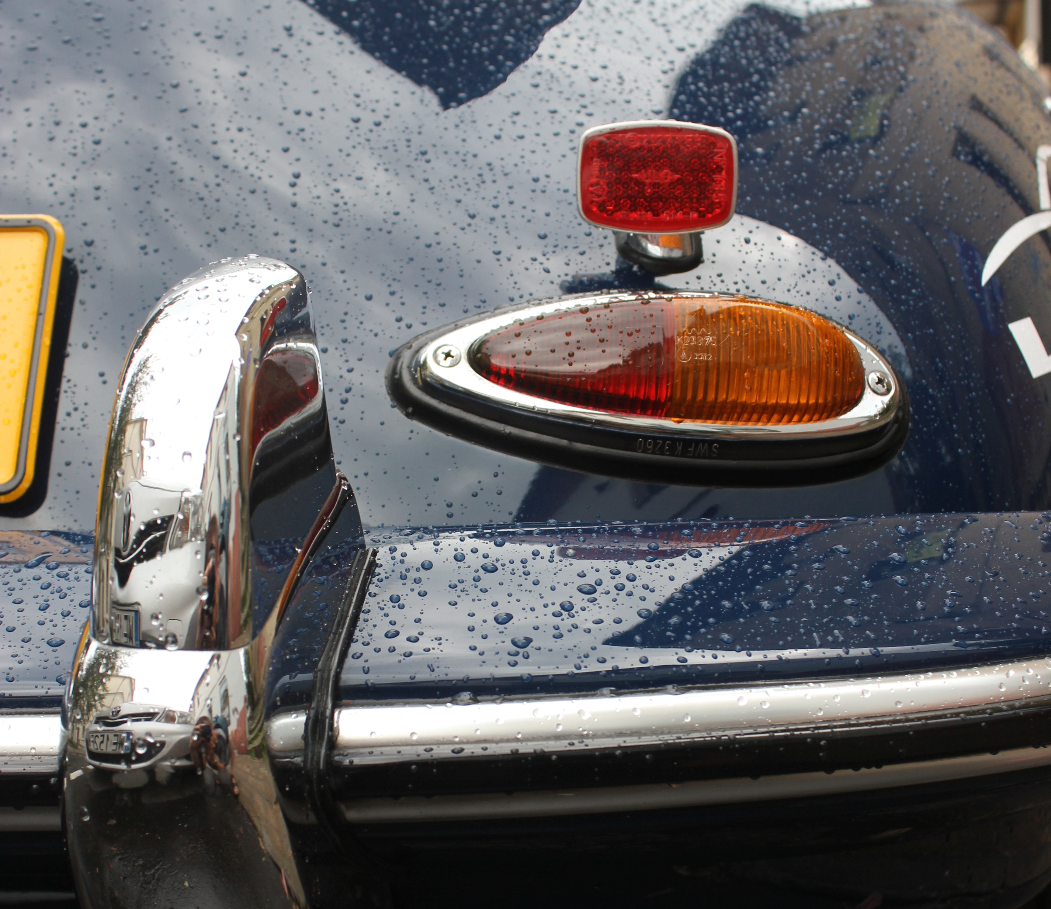 Opole - Porsche 356